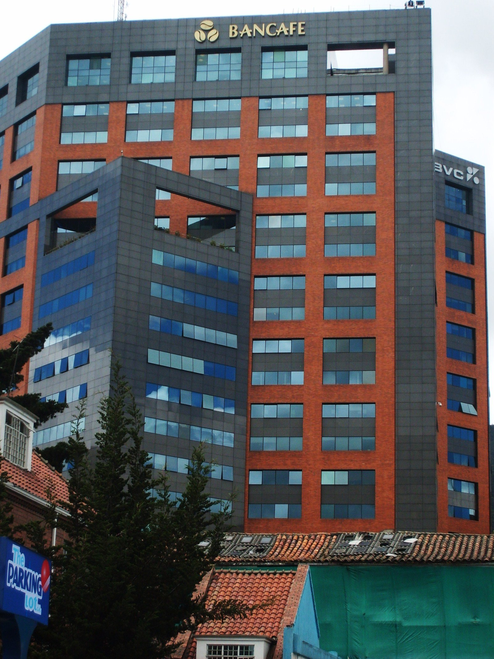 Bancafe Building Bogota Colombia